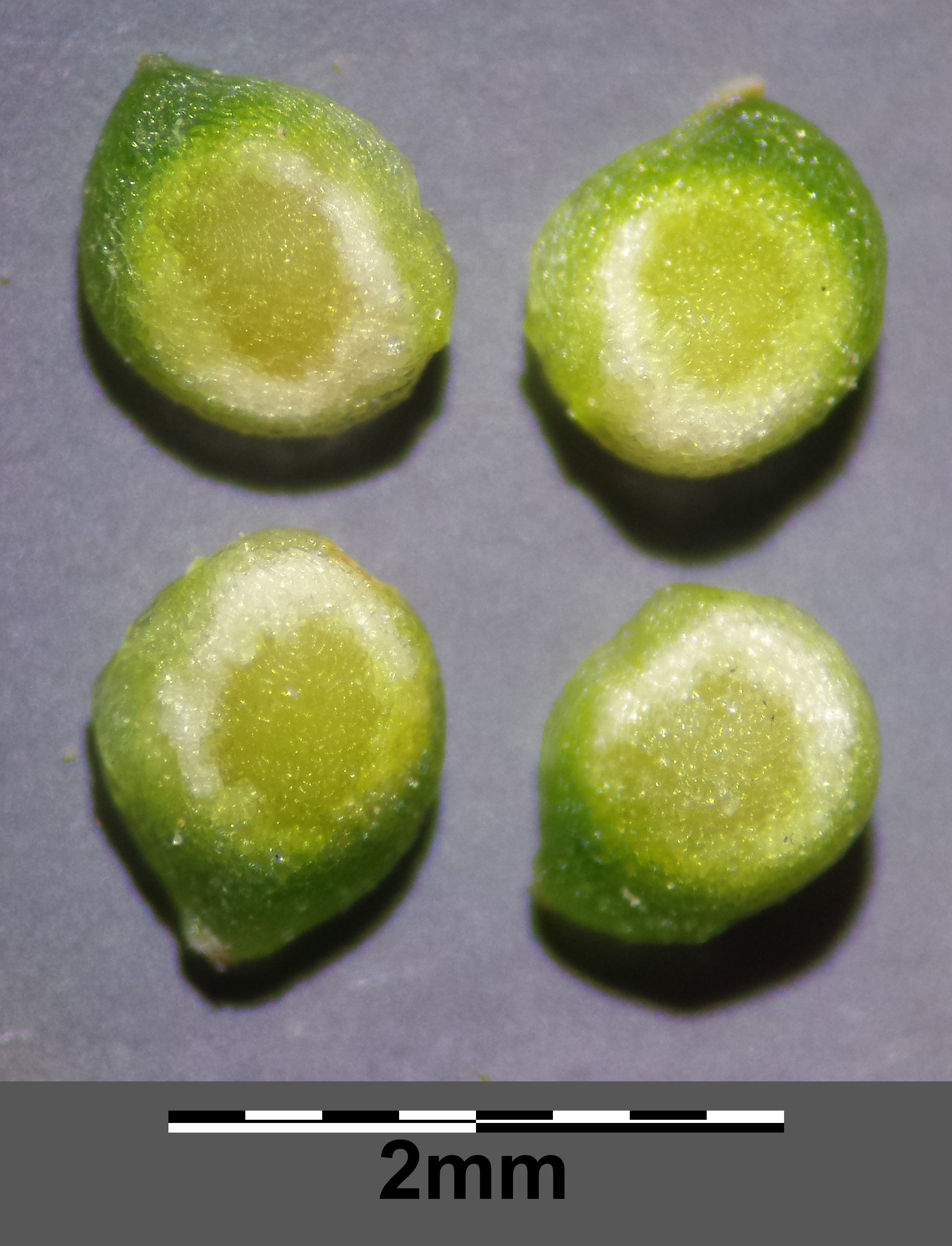 Nutlets Taxonym: Ranunculus sceleratus ss Fischer et al. EfÖLS 2008 ISBN 978-3-85474-187-9 Location: pond near Michelstetten, district Mistelbach, Lower Austria - ca. 250 m a.s.l. Habitat: shore of a pond